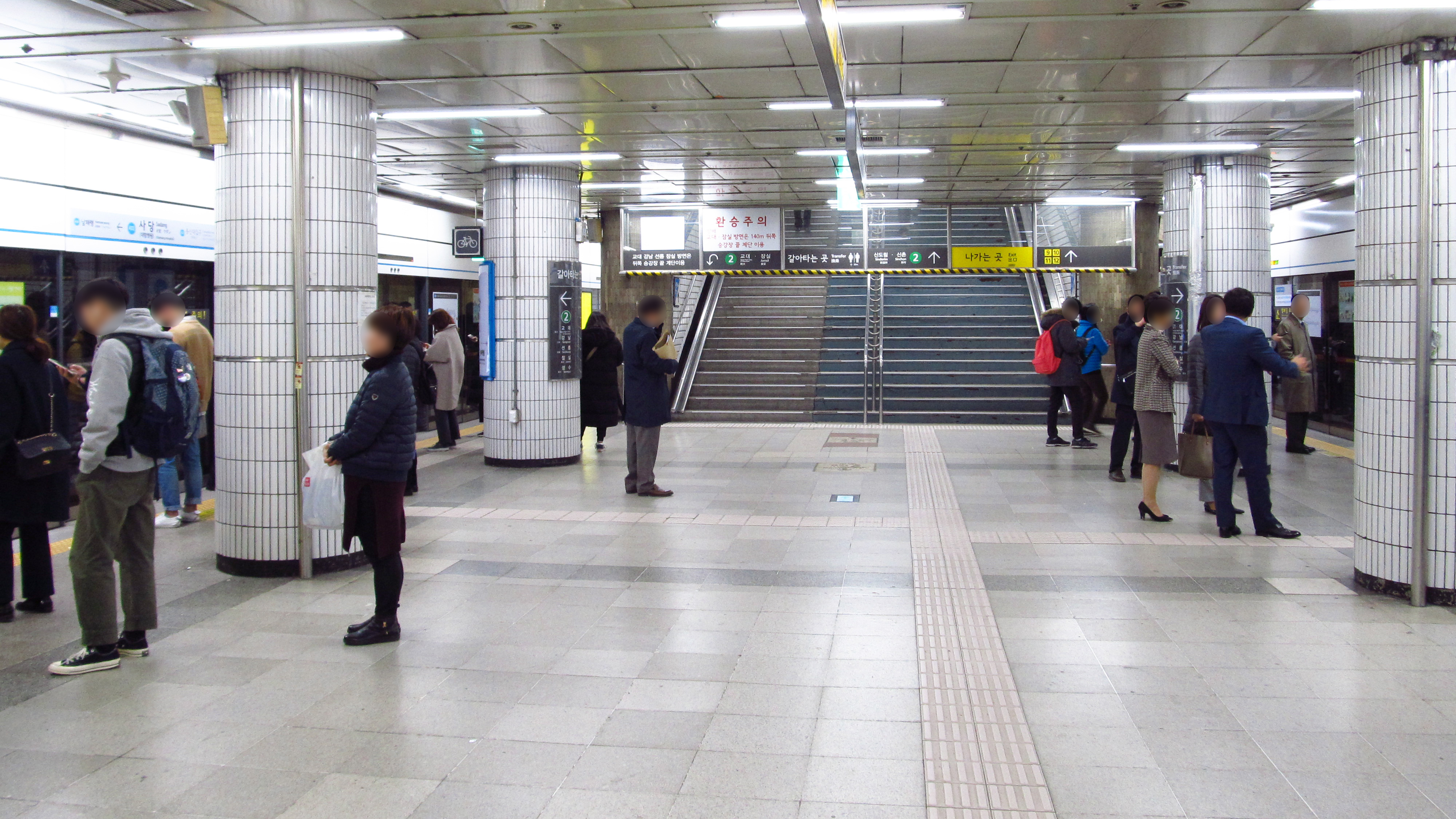 The platform at Sadang Station on Seoul Subway Line 4 in Dongjak-gu, Seoul, Republic of Korea(South Korea)